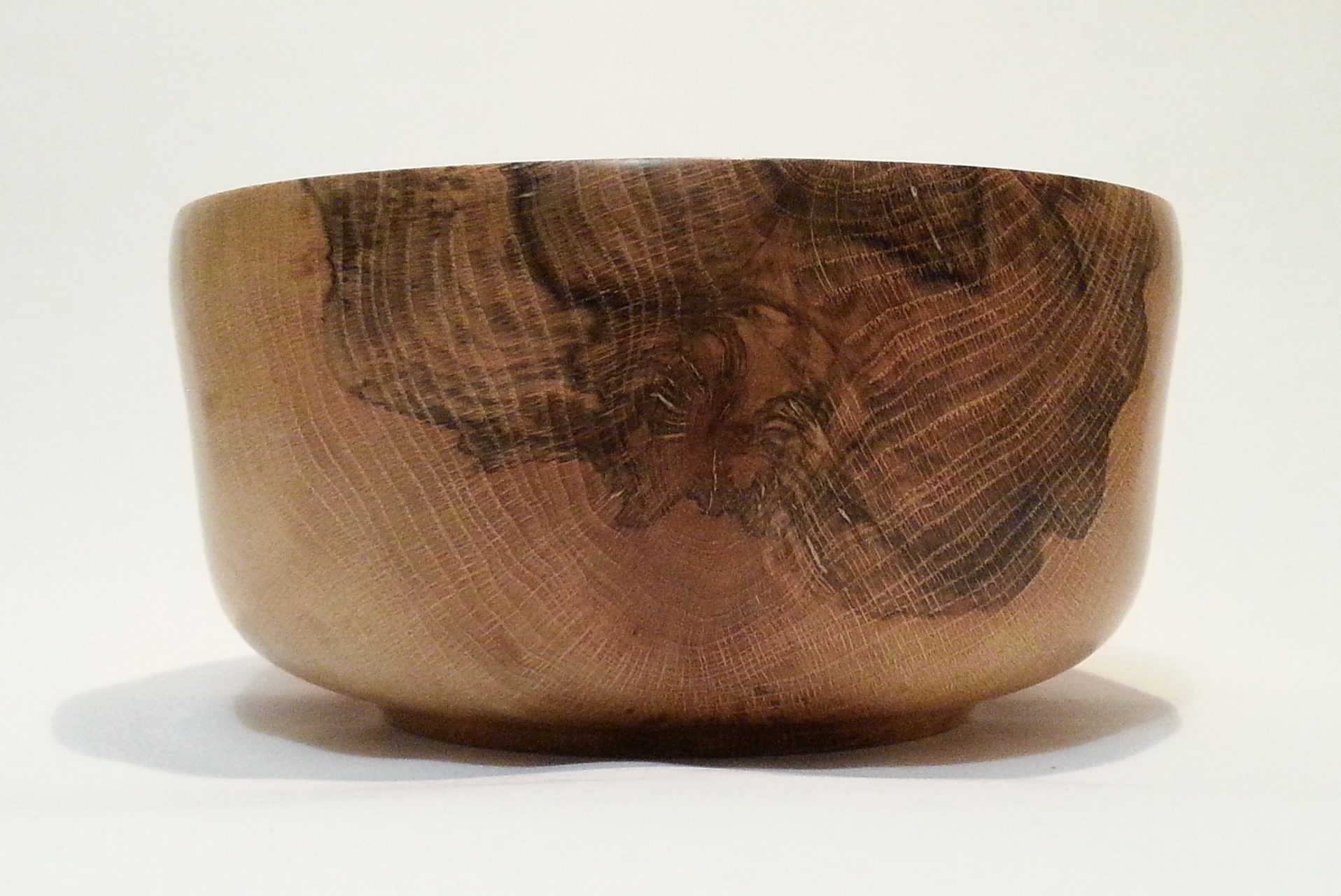 Spalted Oak bowl, hand turned.